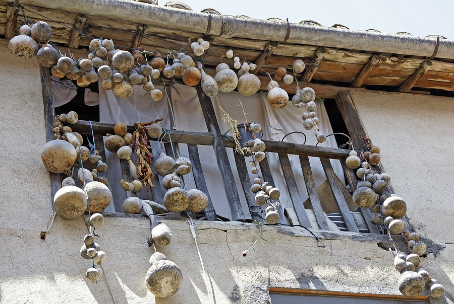 Calabazas en las terrazas